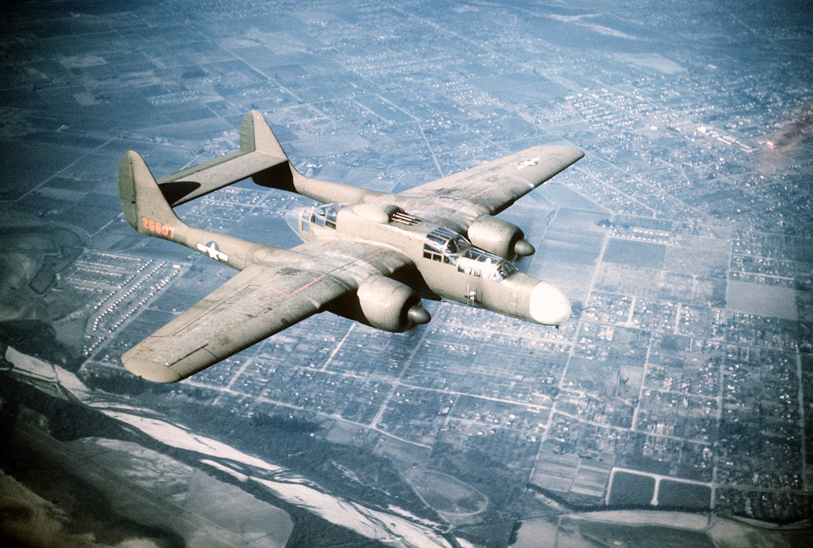 Northrop P-61 Black Widow night fighter.